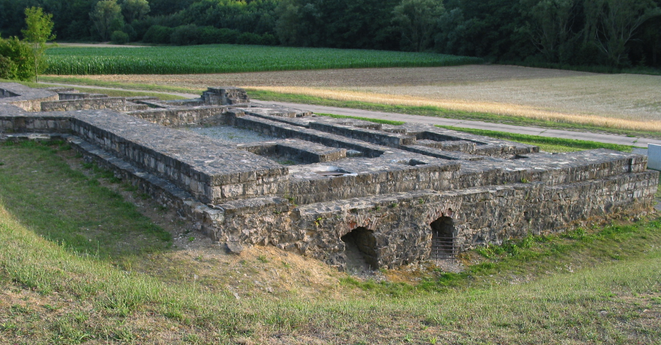 foundation walls of Castle Mädelhofen from Balthasar Neumann